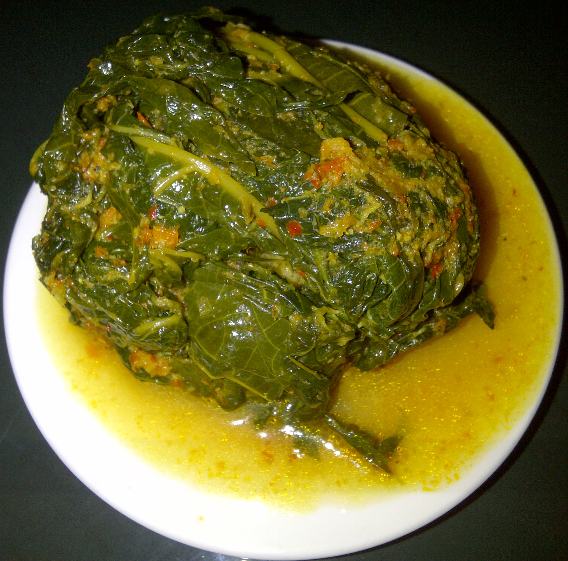 Buntil, Javanese traditional food made of papaya leaves which is wraps grated coconut and anchovies and boiled in coconut milk.